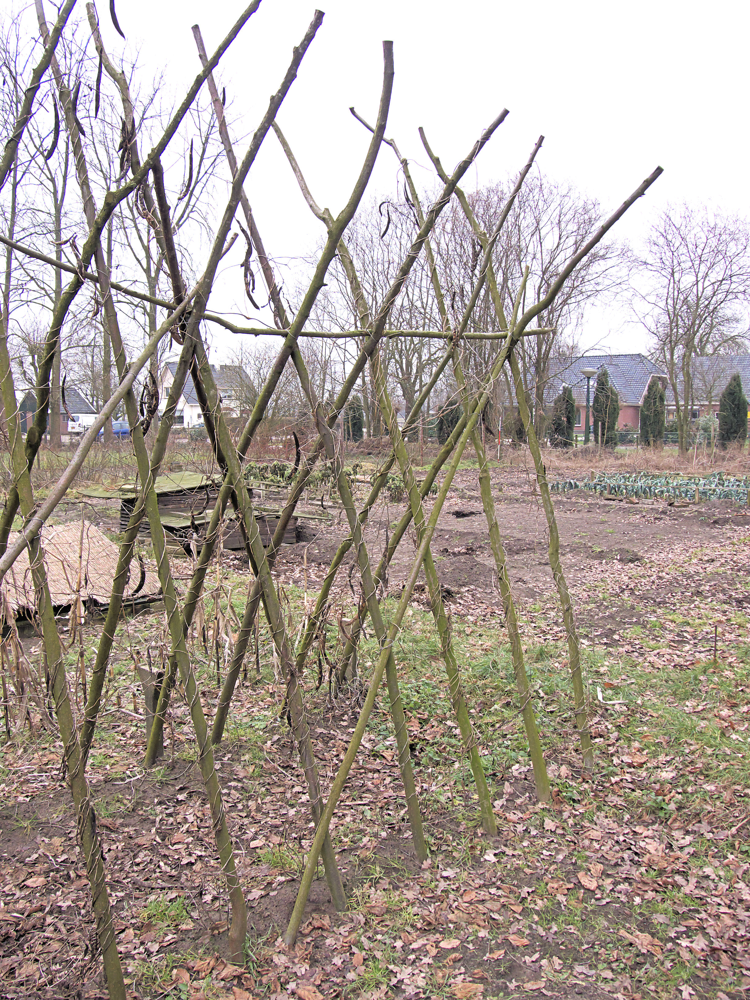 Beanpoles made of Corylus avelana